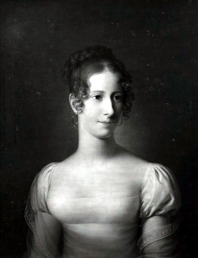 Louisa Sophie of Danneskjold-Samsøe, duchess of Schleswig-Holstein-Sonderburg-Augustenburg